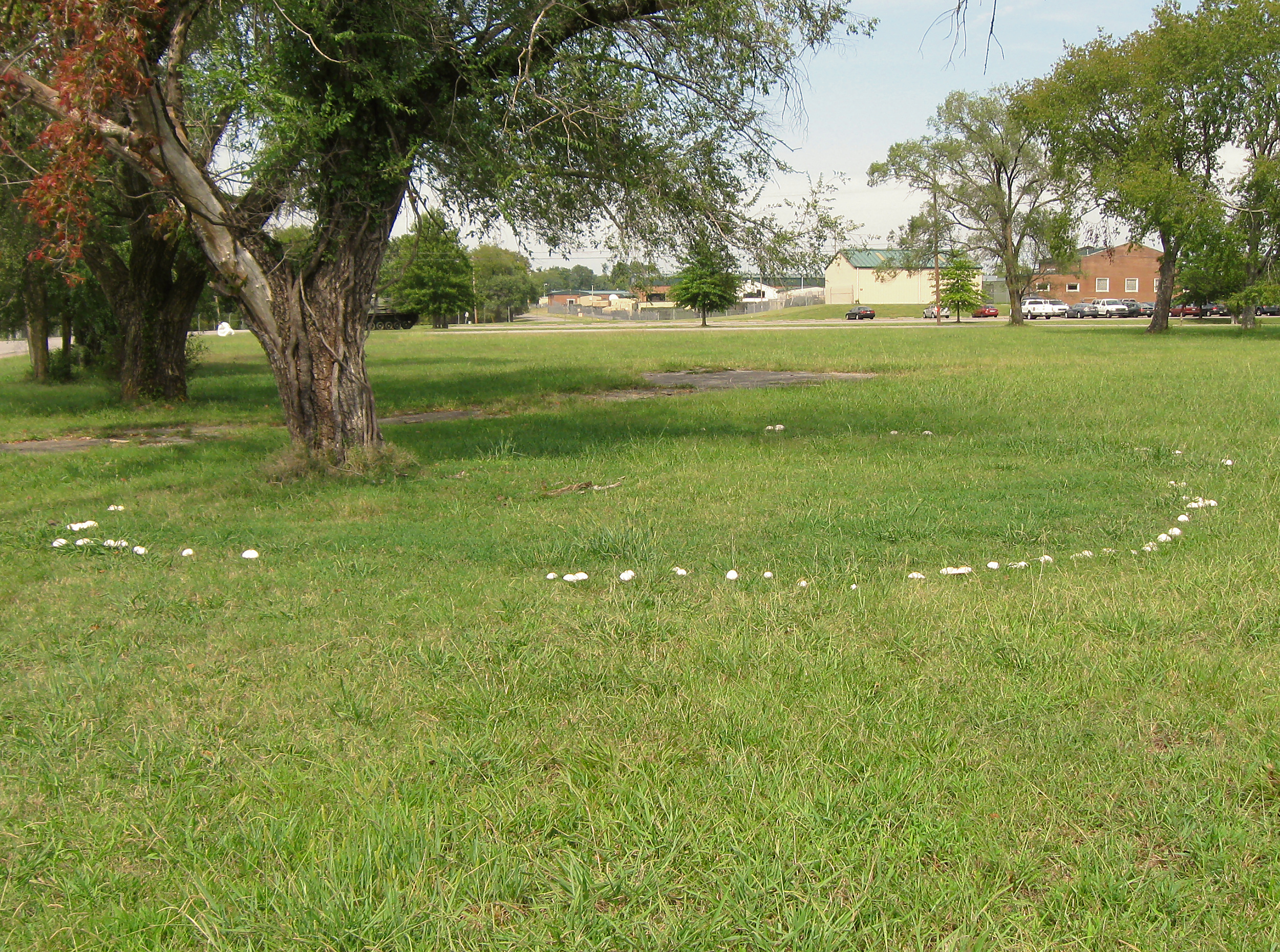 Chlorophyllum molybdites (G. Mey.: Fr.) Massee Image location: Smyrna Air Base, Rutherford Co., Tennessee, USA The fairy ring is back again this year, though not as full as last year – only 138 mushrooms today! 12cm diameter cap, green spore print Recognized by sight For more information about this, see the observation page at Mushroom Observer.